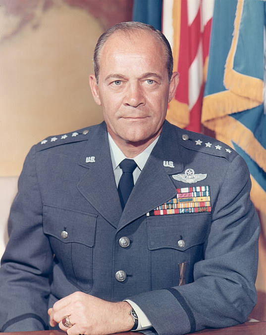 GEN Joseph J. Nazzaro, USAF